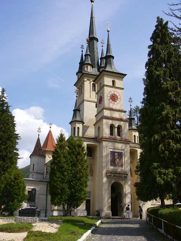 St. Nicholas orthodox church